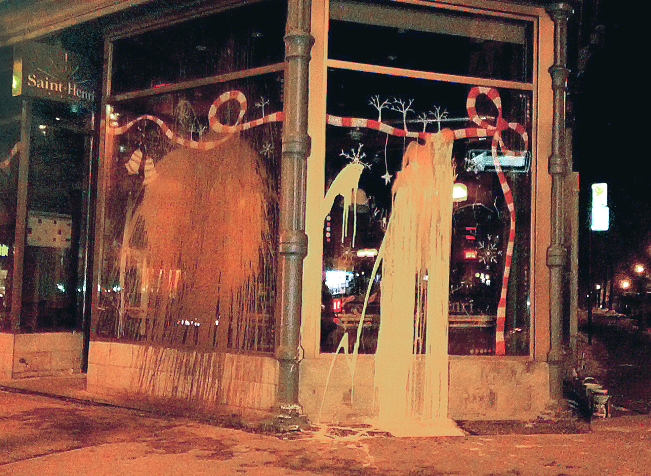 Alleged anti-gentrification attack against Café St-Henri in the St-Henri neighborhood of Montreal. Photo taken 29 January 2012 at 3632 rue Notre-Dame Ouest, Montreal.